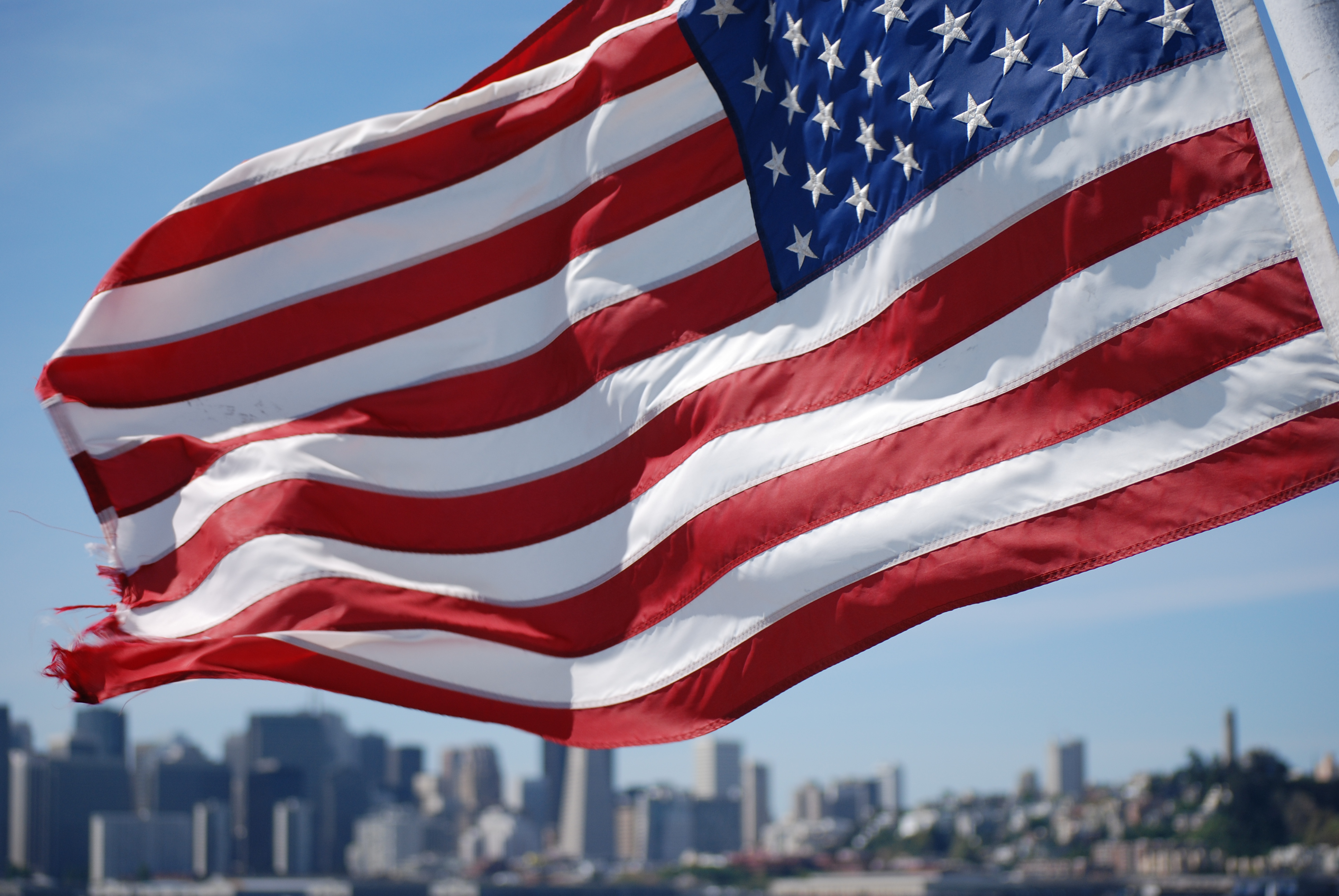 American Flag, San Francisco.